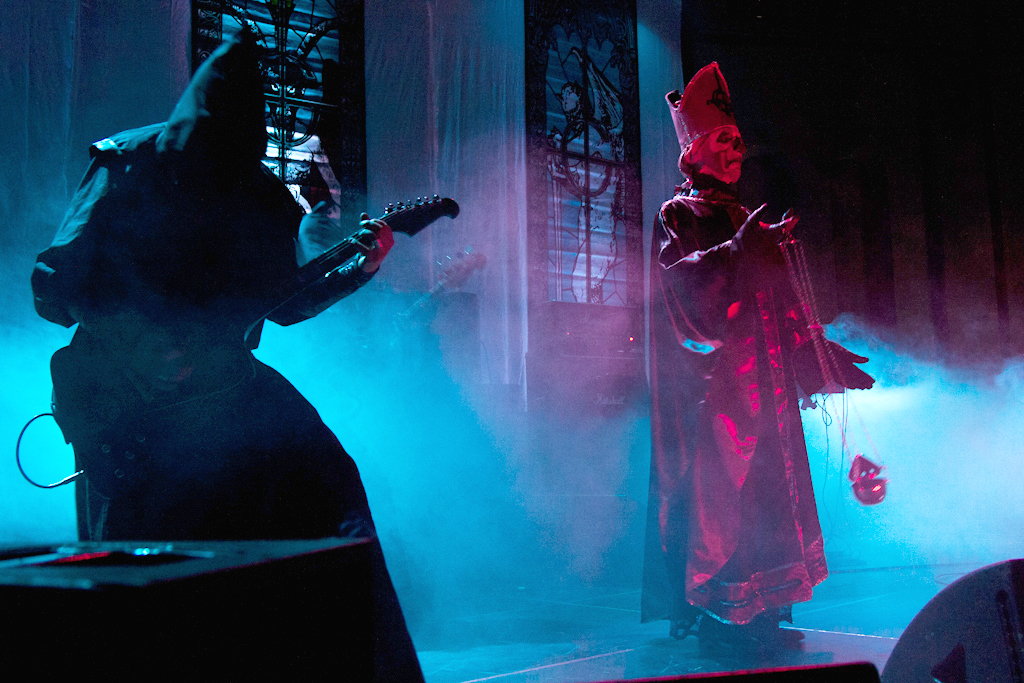 Ghost live at Getaway Rock Festival 2011, Gävle, Sweden.